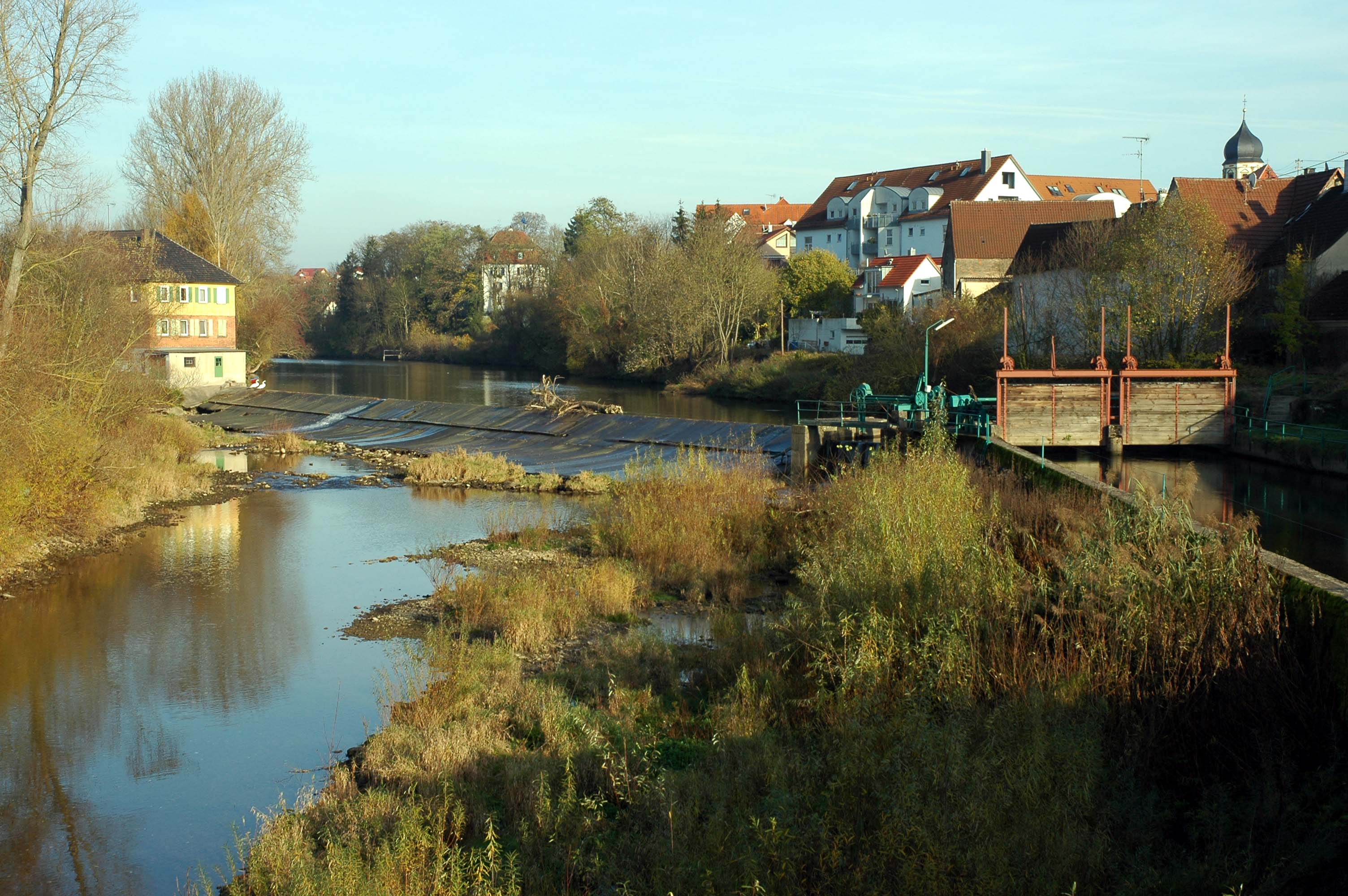 view from the Kocher bridge at the dam in Oedheim (Germany)